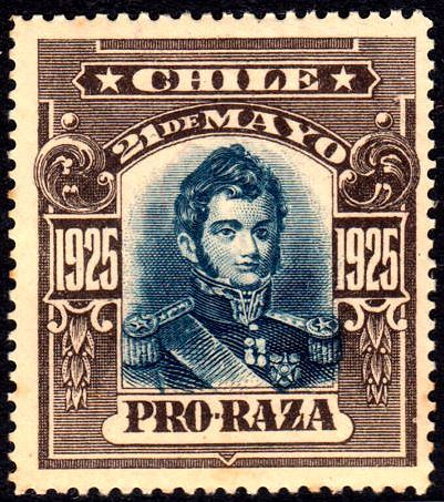 Chile Santiago post office seal. SFC: C07